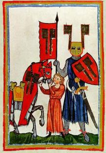 Wolfram von Eschenbach and squire, from a medieval manuscript (public domain)